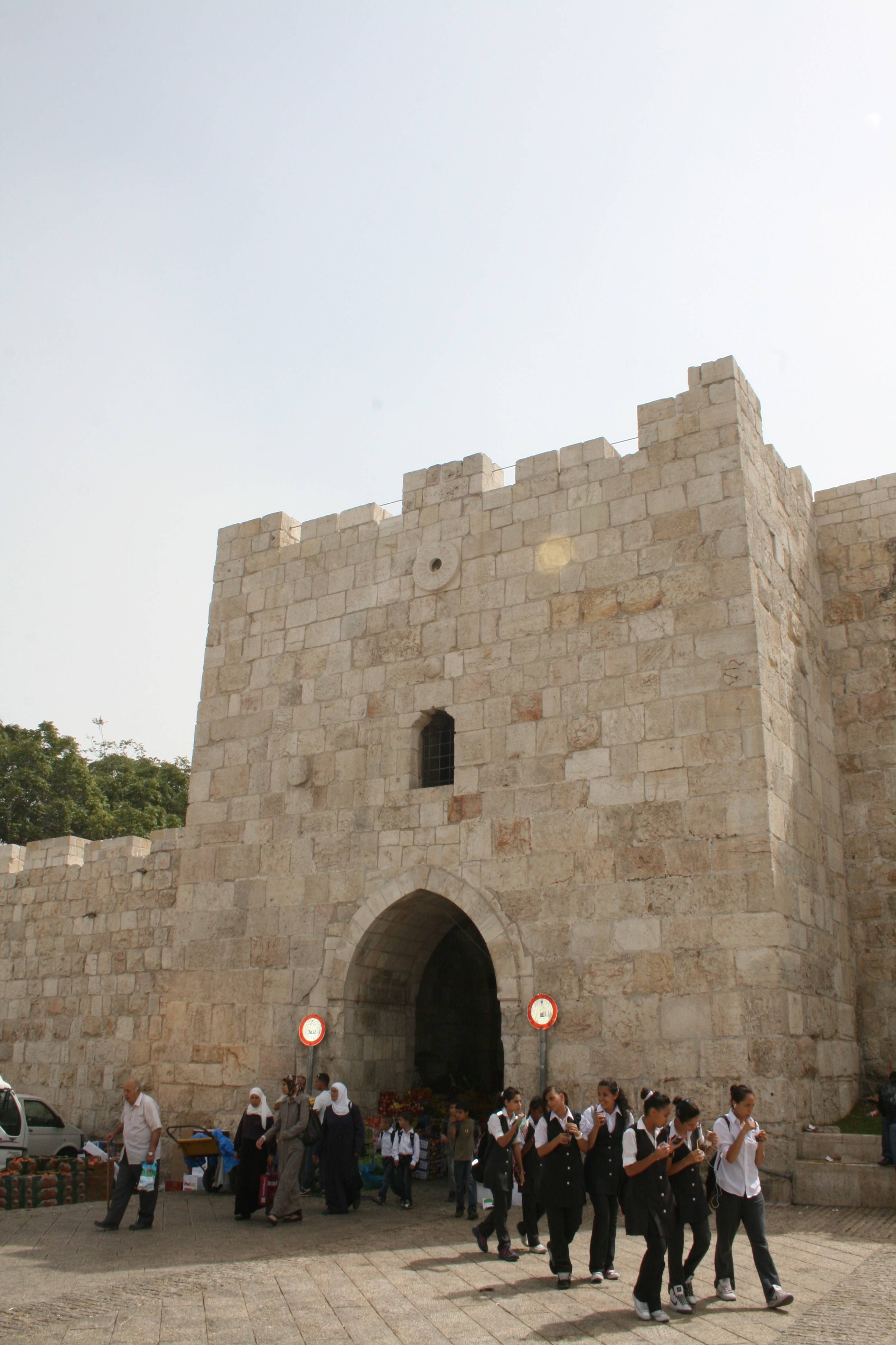 Herode's Gate in the Old City of Jerusalem